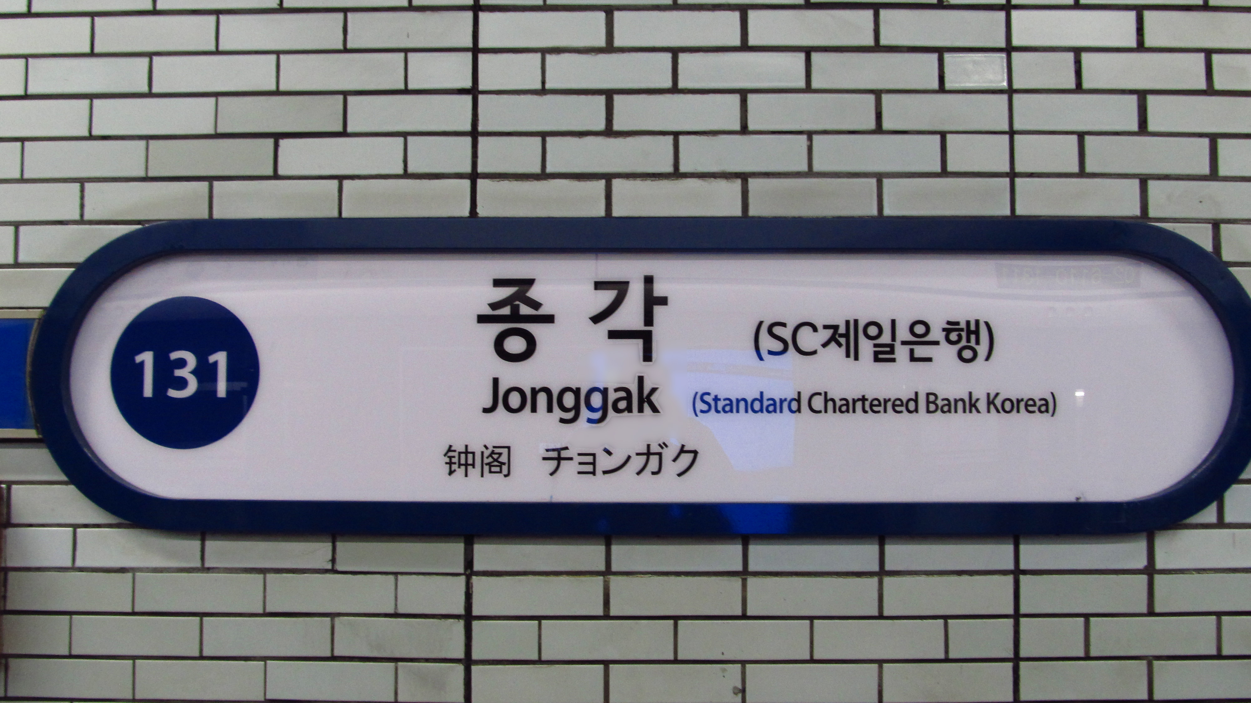 A sign of Jonggak Station on Seoul Subway Line 1